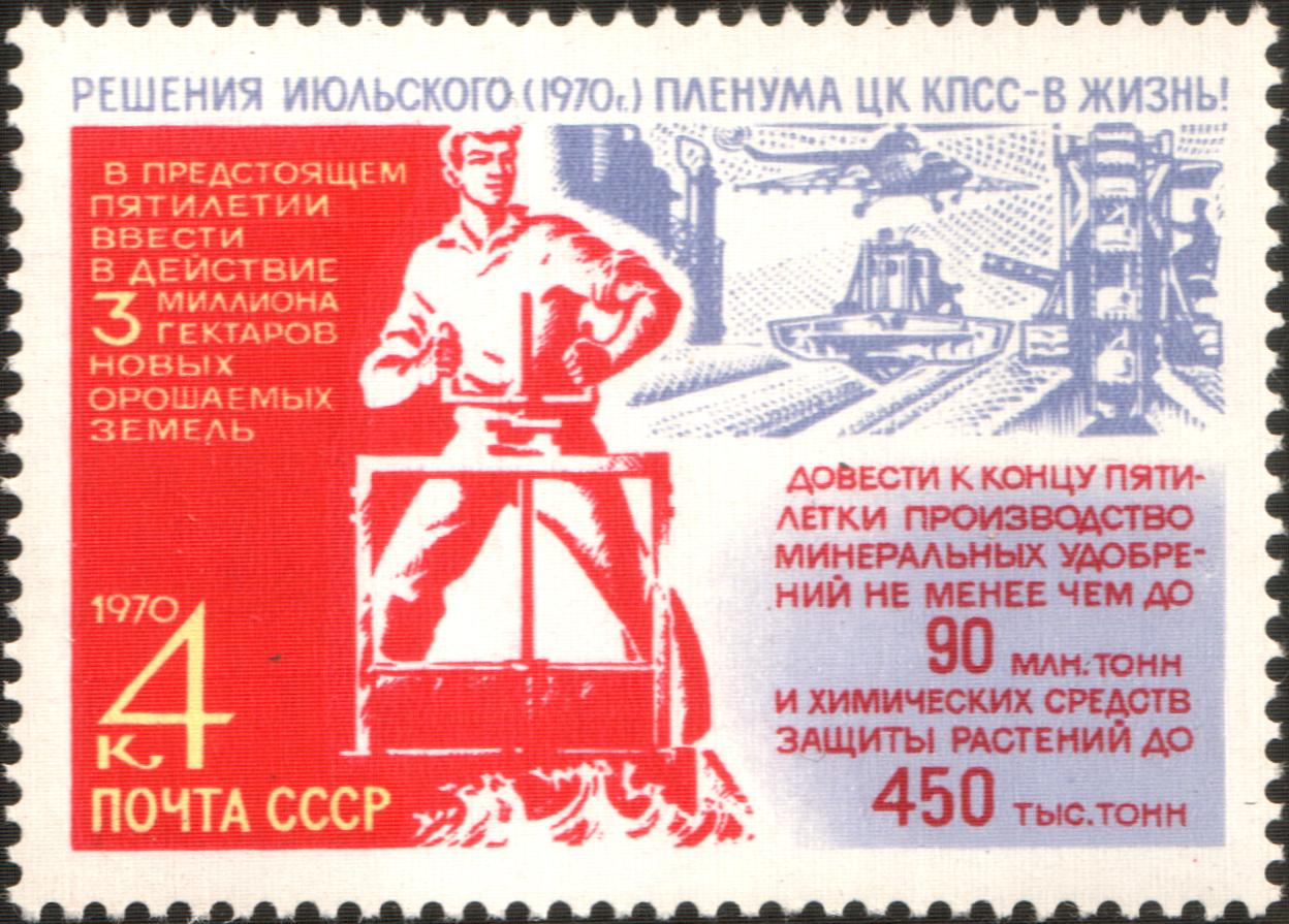 USSR stamp: Lock Operator and Canal (“Irrigation and Chemical Research”). Series: The Central Committee of the Communist Party of the Soviet Union Plenum on Agriculture (1970.07.2–3) Resolutions